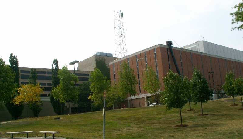 Faucett Hall in the main campus of the Wright State University, Dayton, Ohio, U.S.A.